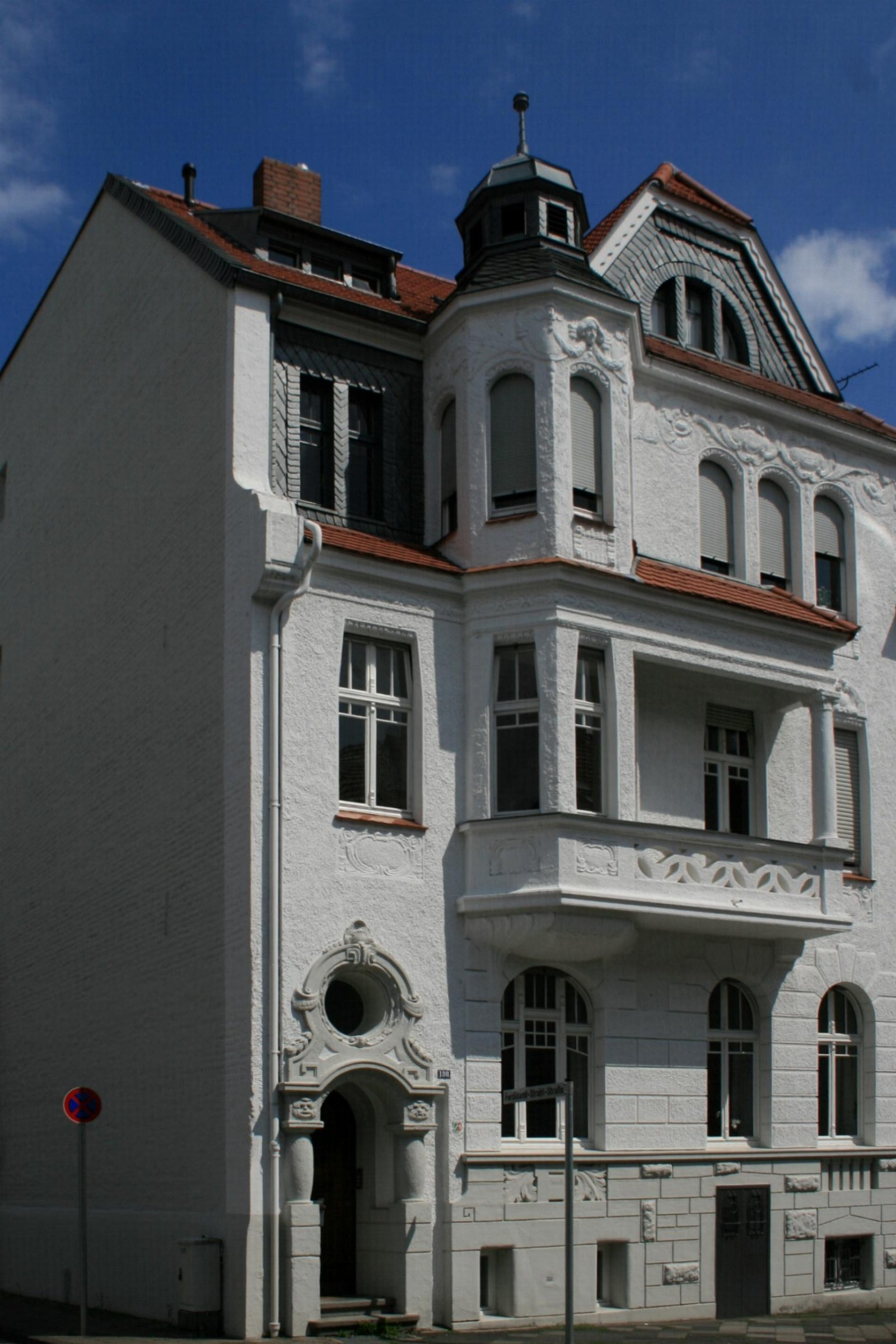 Cultural heritage monument No. L 036 in Mönchengladbach